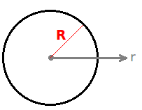 Schema for interior solution of Schwarzschild metric.